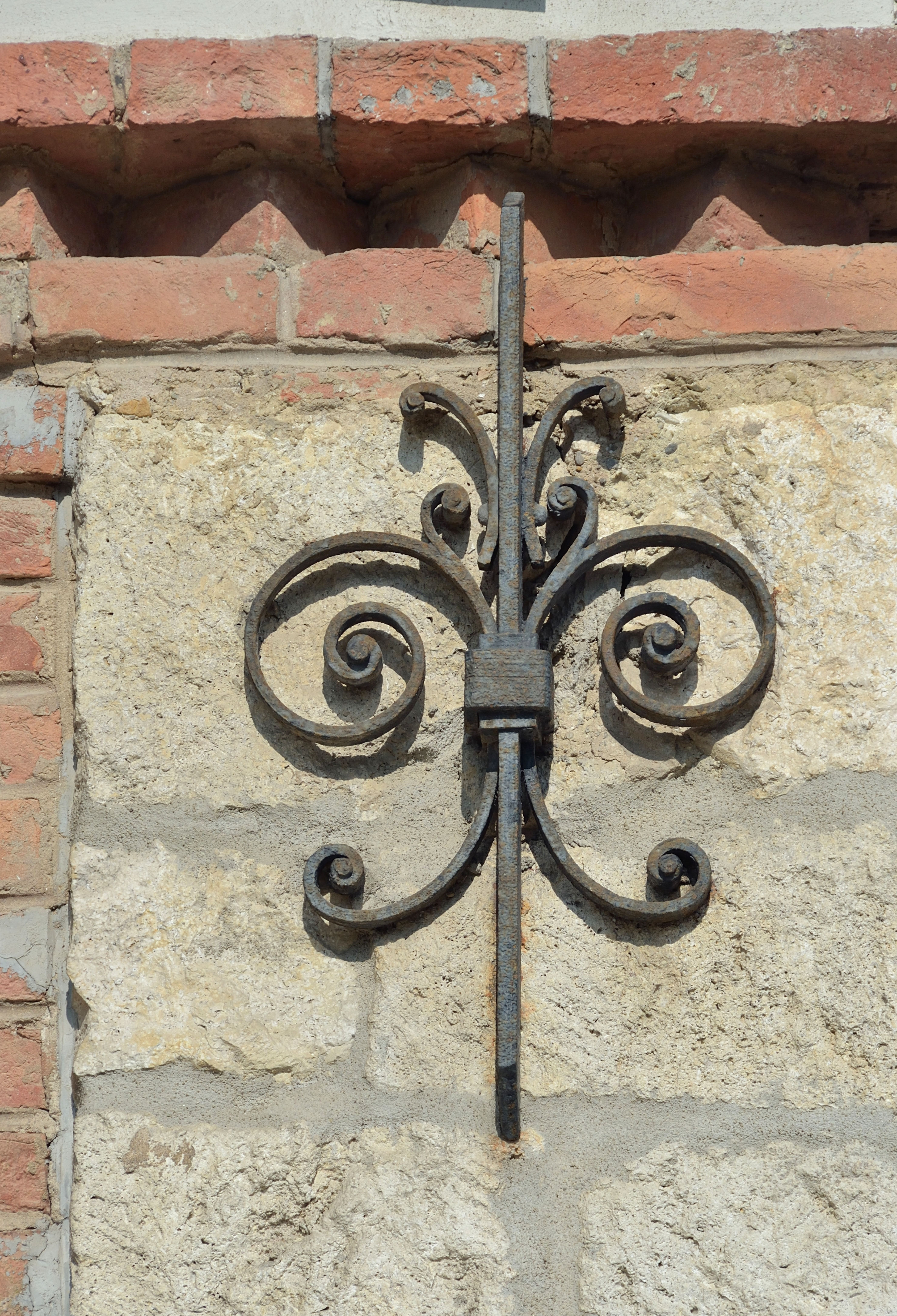 The Felmayergarten (a park) in Schwechat.